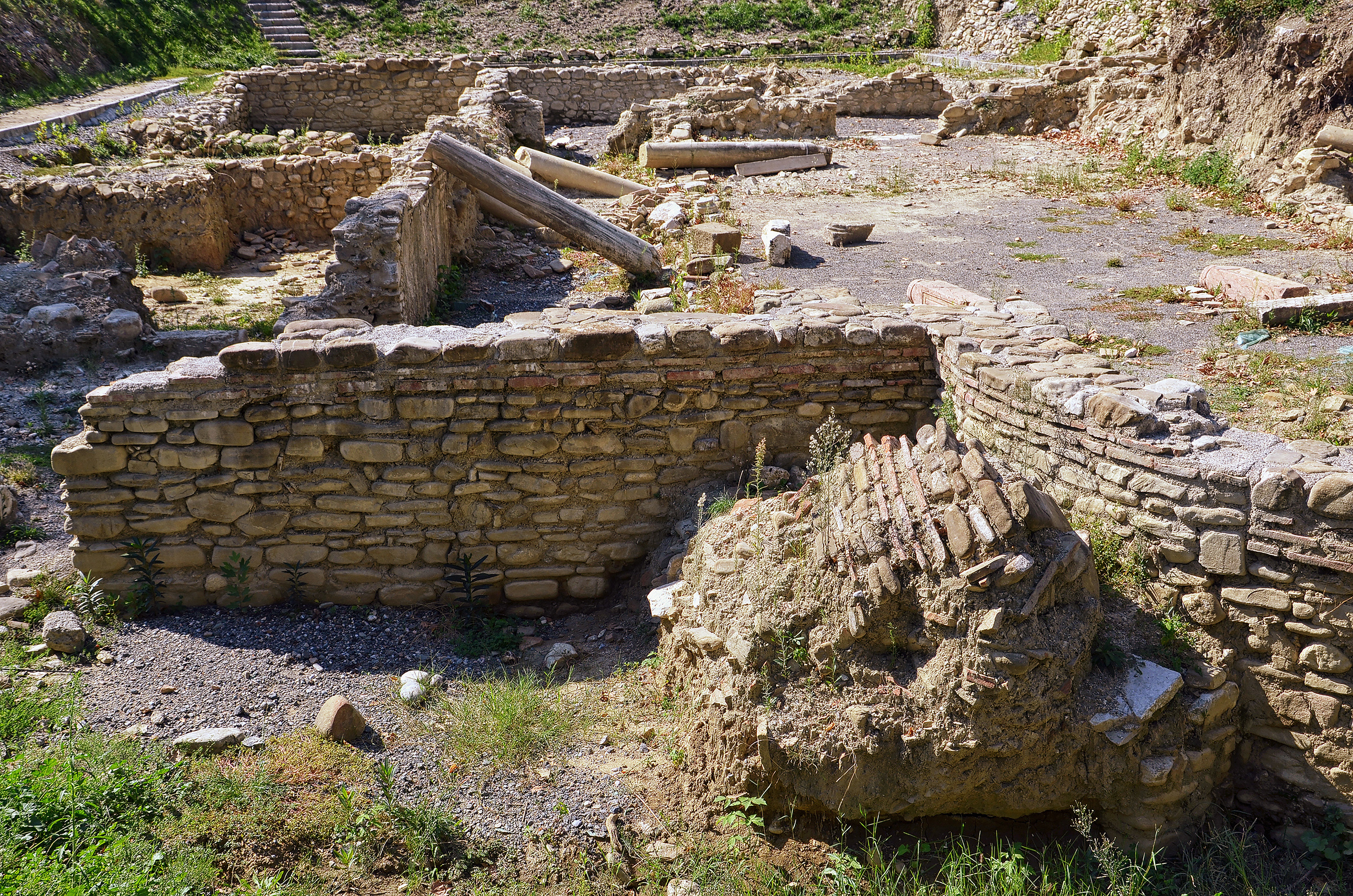 The Basilica of Bezistan in Elbasan, Albania